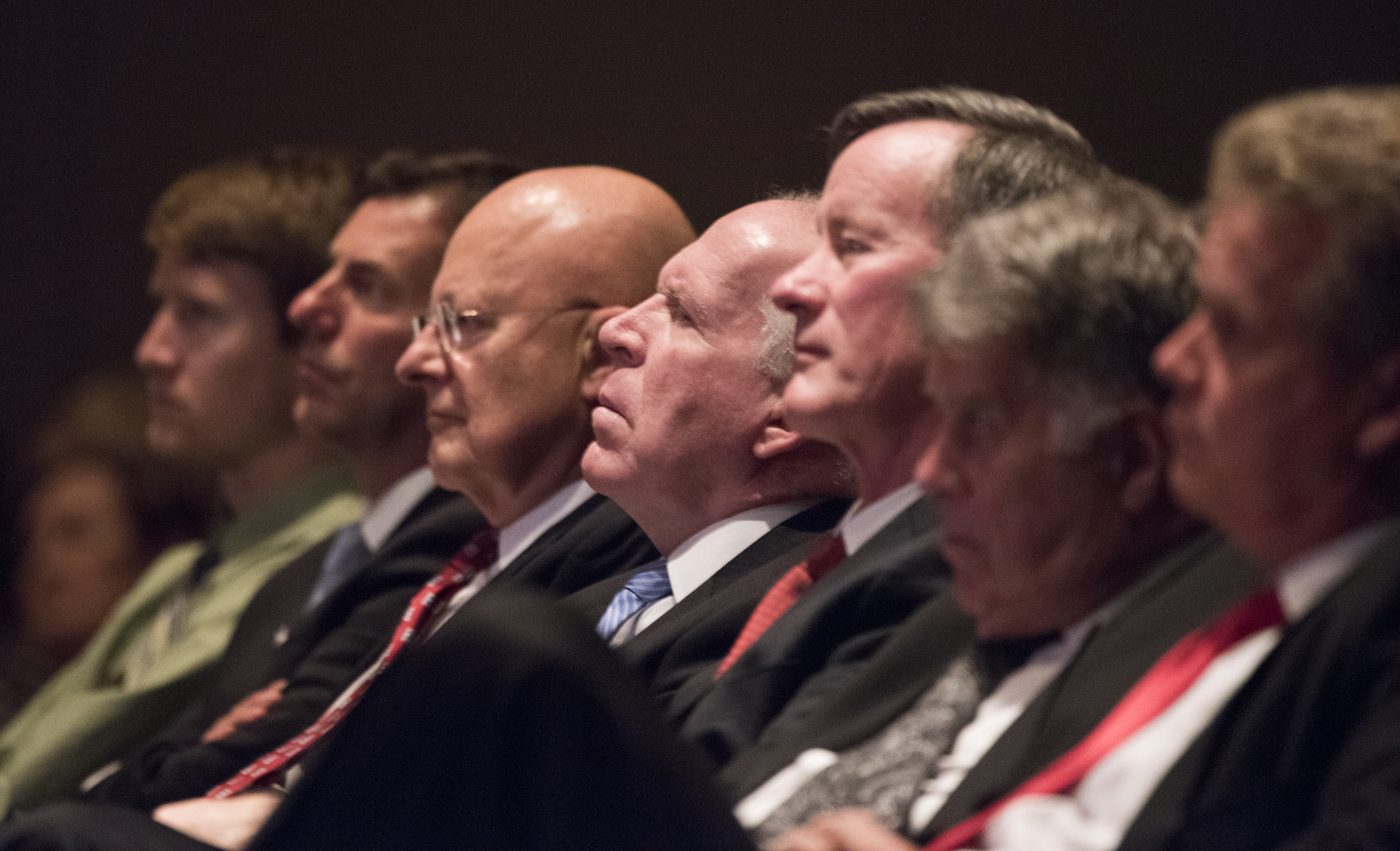 On Wednesday, Sept. 16, 2015, at a public event at the LBJ Presidential Library, the Central Intelligence Agency released over 2,500 previously classified President's Daily Briefs (PDBs) from the administrations of Presidents Kennedy and Johnson. It was the biggest release of PDBs by the CIA, ever. The event, entitled "The President's Daily Brief: Delivering Intelligence to the First Customer," featured CIA Director John O. Brennan as the keynote speaker. Director of National Intelligence James R. Clapper delivered closing remarks. In addition, the event featured a panel discussion and remarks by other leaders from the academic, archivist, and intelligence communities, including William H. McRaven, Chancellor of the University of Texas System, former CIA Director Porter Goss, former CIA Deputy Director Bobby Inman, and others. LBJ Library photo by Jay Godwin